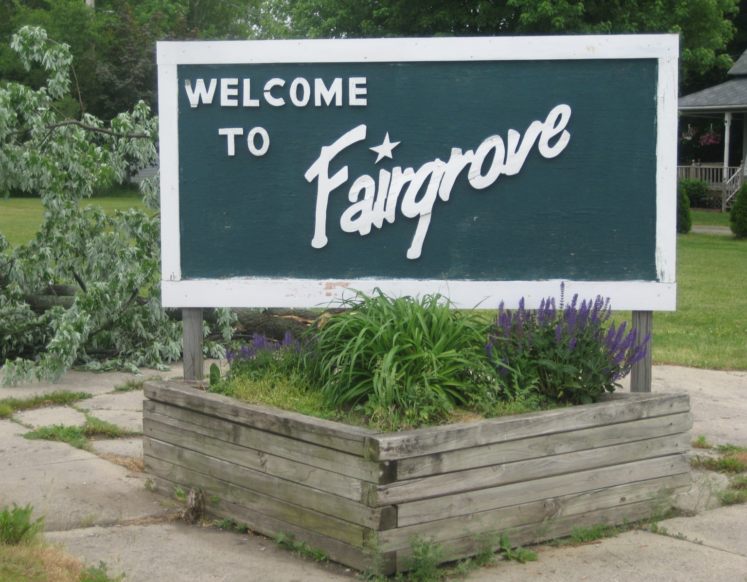 Fairgrove, Michigan, village sign at intersection of Main Street and Fairgrove Road (M-138), facing southeast